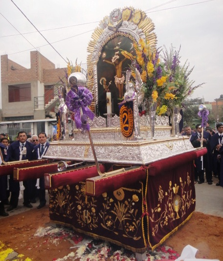 Lord of Miracles in Ate District (Lima-Peru).